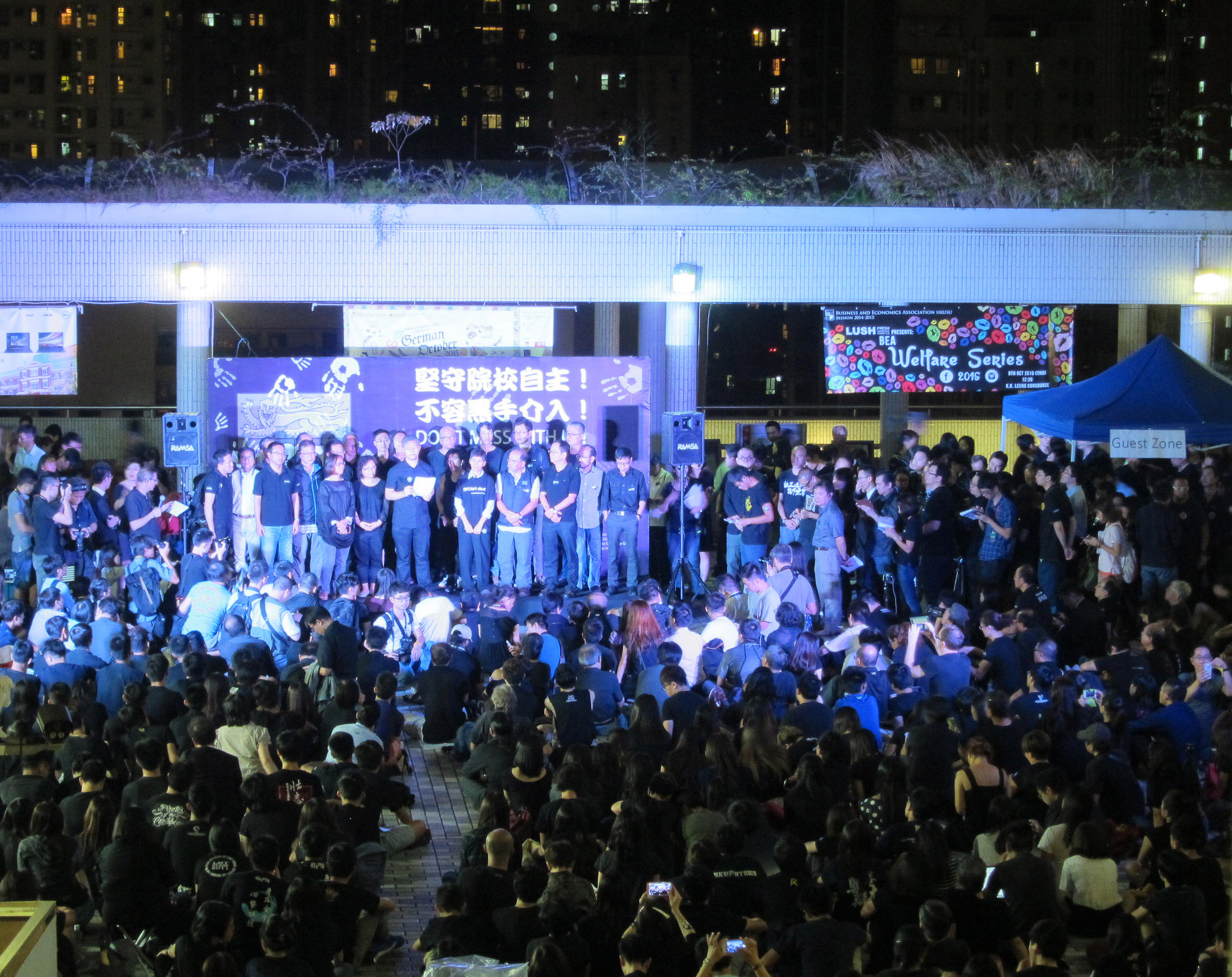 Students and staff convene at Sun Yat-sen Place, University of Hong Kong, to protest political interference in university affairs in light of the HKU Council's rejection of the appointment of Johannes Chan to the post of pro-vice-chancellor, previously recommended by an independent committee.